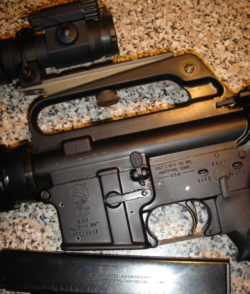 Colt SMG 635, 9 mm NATO, with Aimpoint Comp ML2 Sight